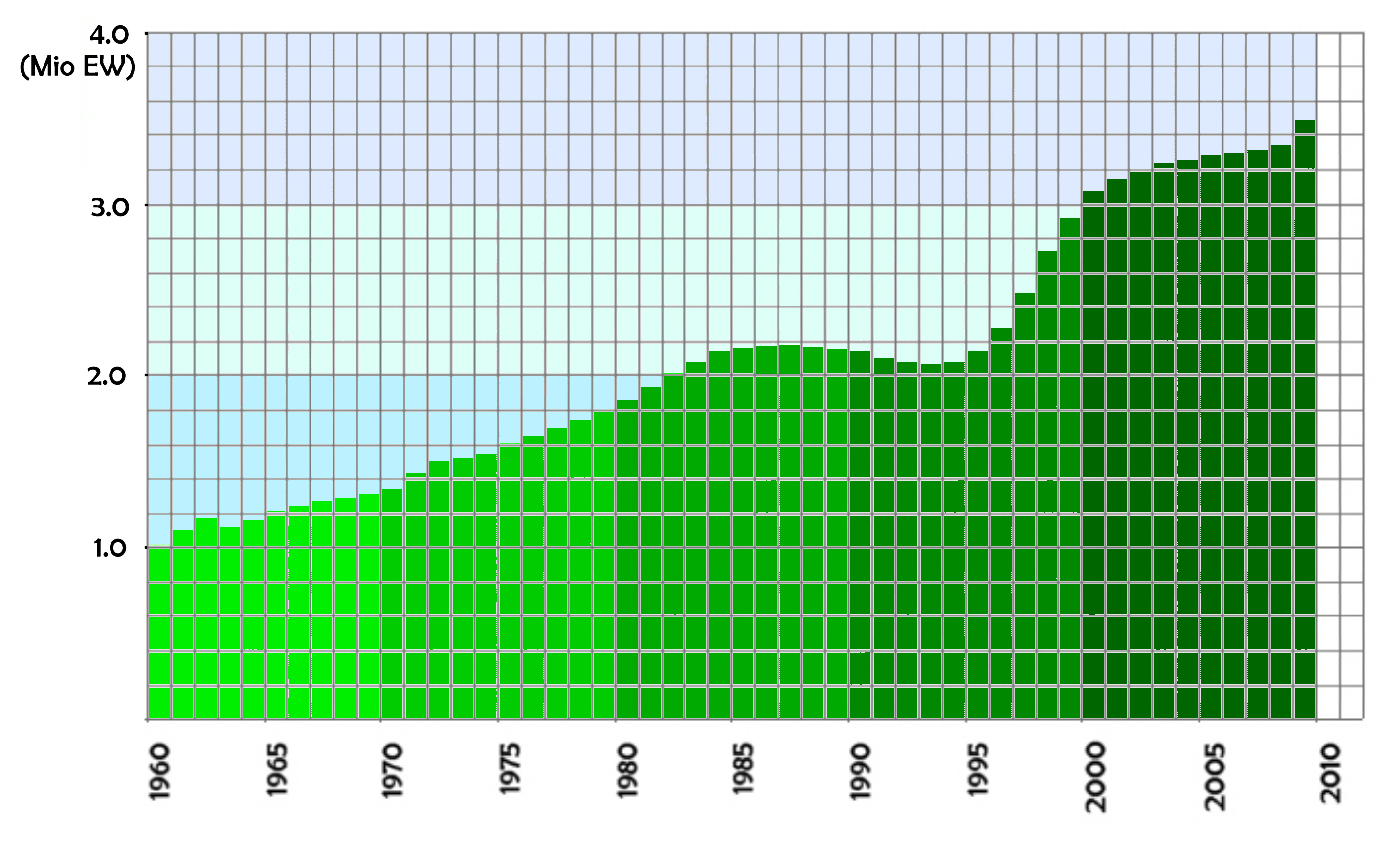 Liberia's population (1960-2009).